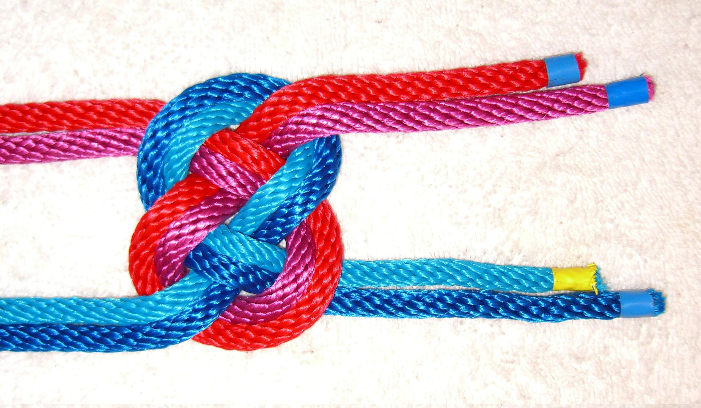 Double coin knot in a pair of double lines.